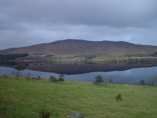 Garton Lough, Co. Donegal.